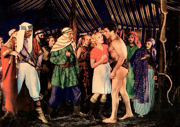 Cropped and edited lobby card for the 1933 movie serial Tarzan the Fearless, featuring Buster Crabbe as Tarzan. This image is assumed to be in the public domain as no copyright notice is in evidence.